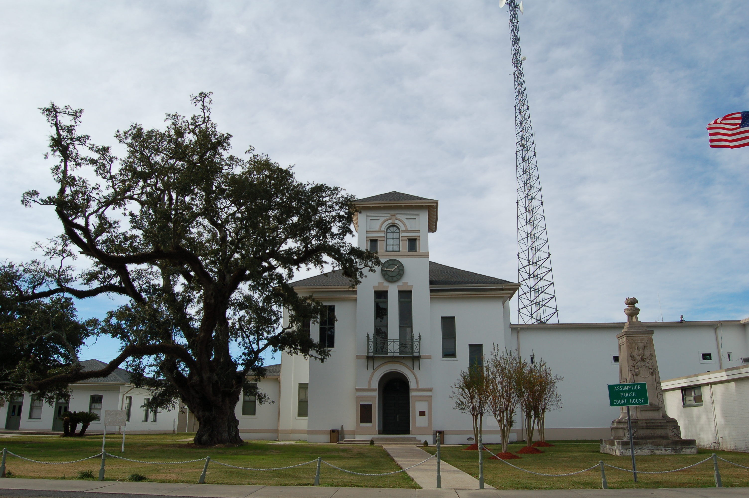 Assumption Parish Courthouse and Jail